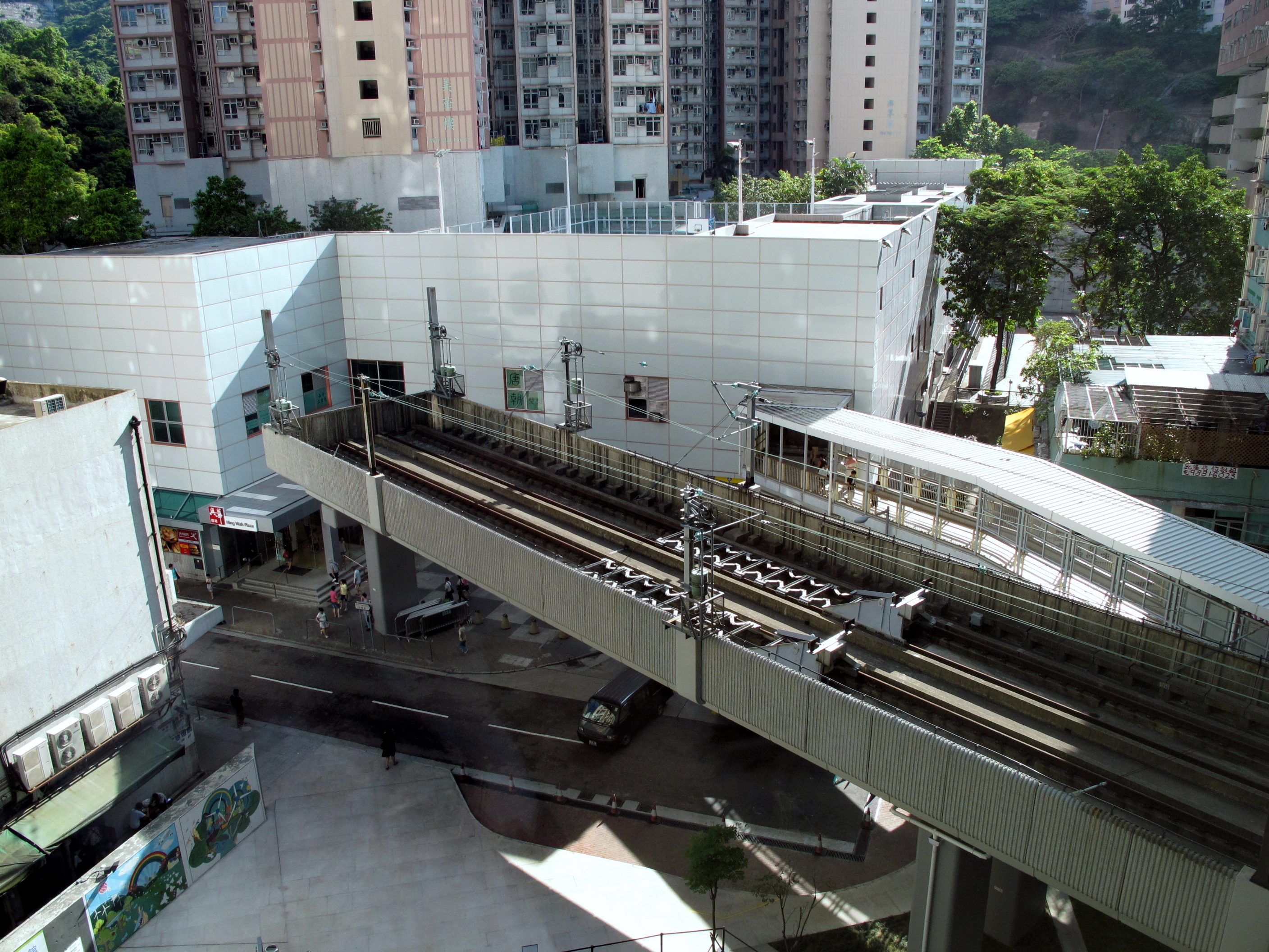 Chai Wan Station MTR Track